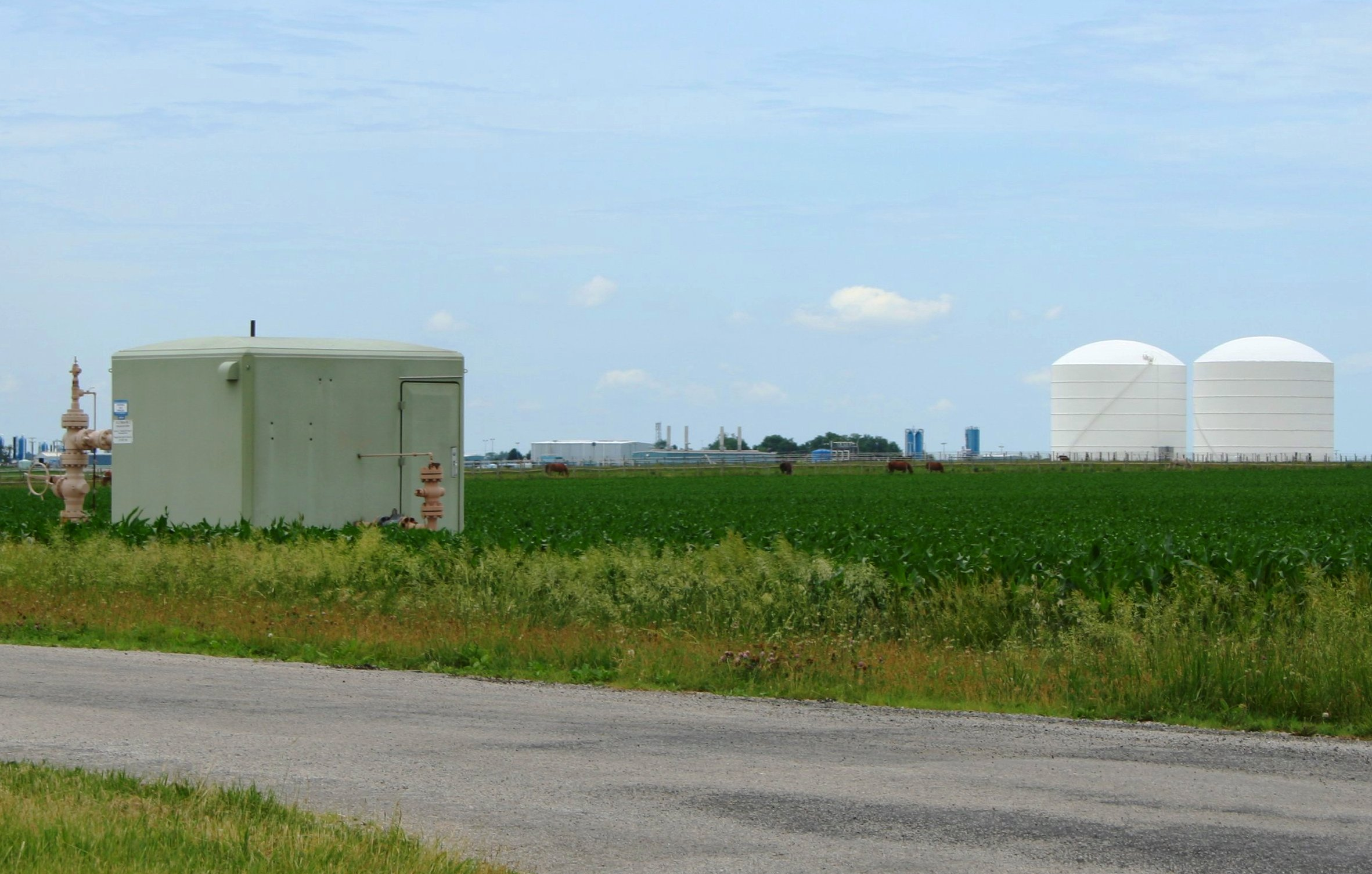 Manlove Field Natural gas storage area operated by Peoples Gas Light & Coke Company.(40°14′33″N 088°25′17″W / 40.2425°N 88.42139°W)